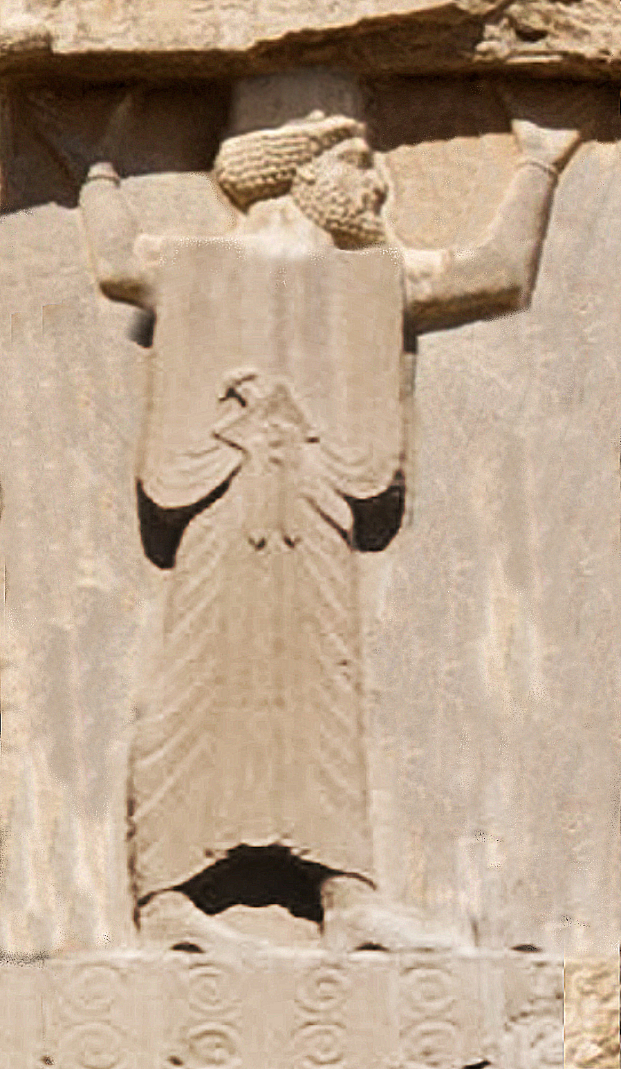 Xerxes I tomb Persian soldier circa 480 BCE. Composite of the Persian soldier on the tomb of Ataxerxes (body) and the Persian soldier on the tomb of Xerxes (head).